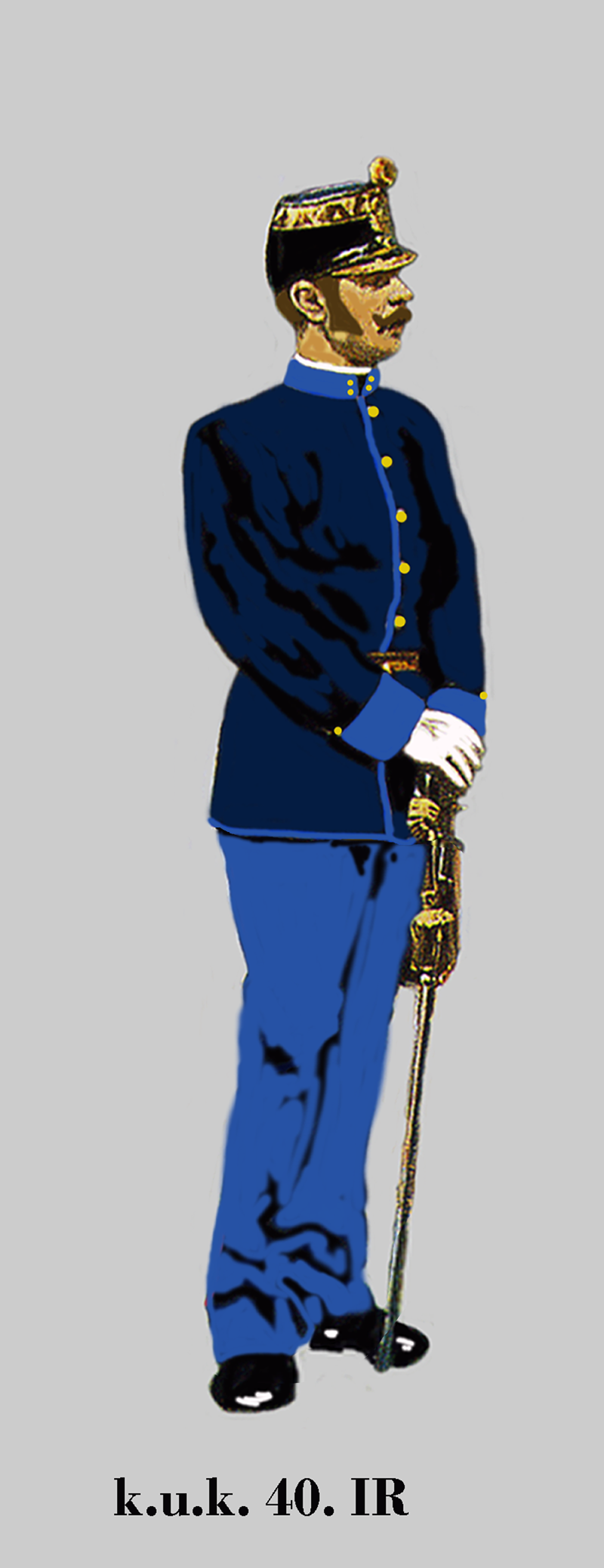 1st lieutenant of the k.u.k. 40th Infantry Regiment (German Infantry) in parade dress